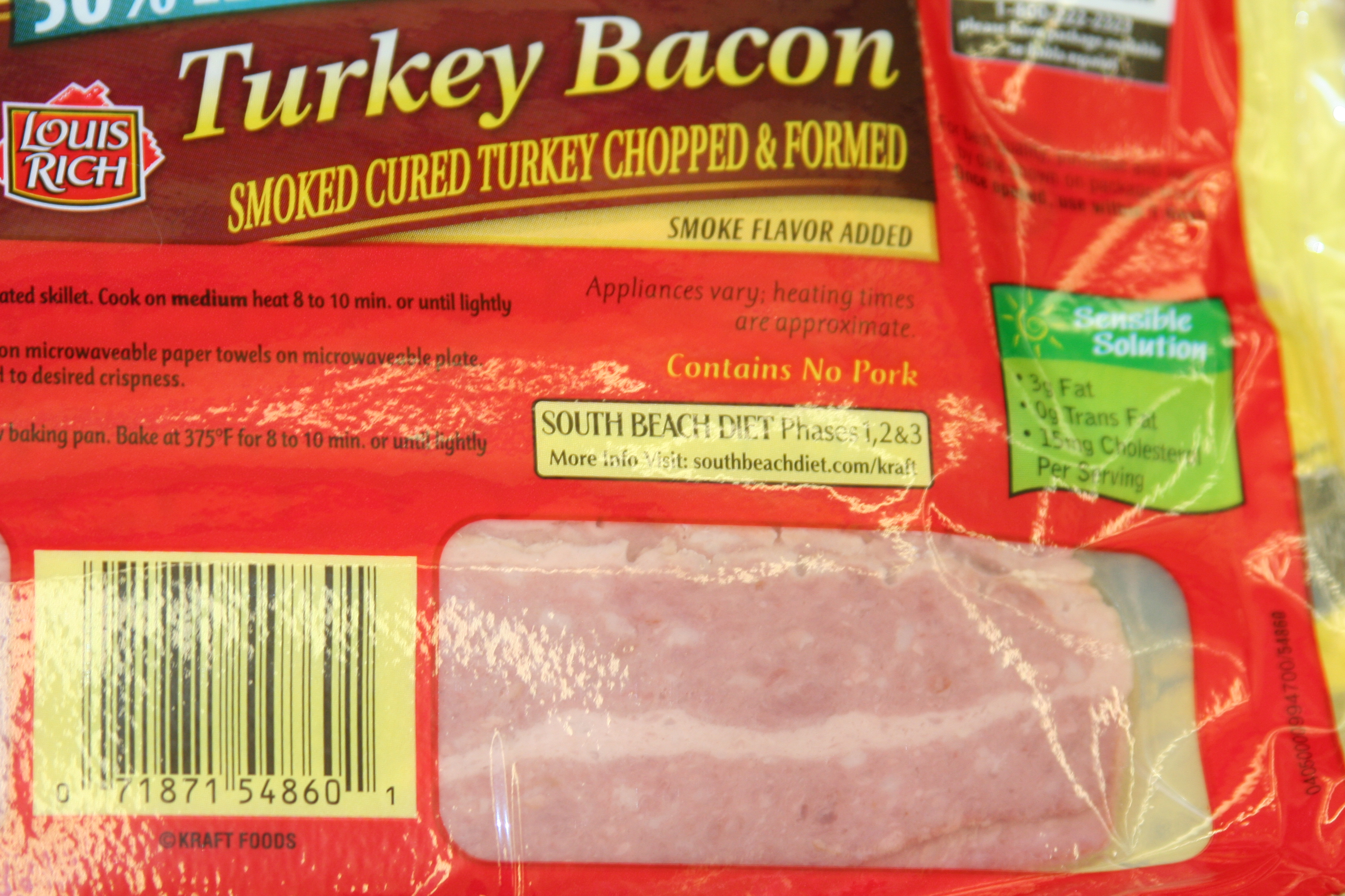 Package of turkey bacon from U.S. supermarket May, 2009, by ChildofMidnight, attribution required